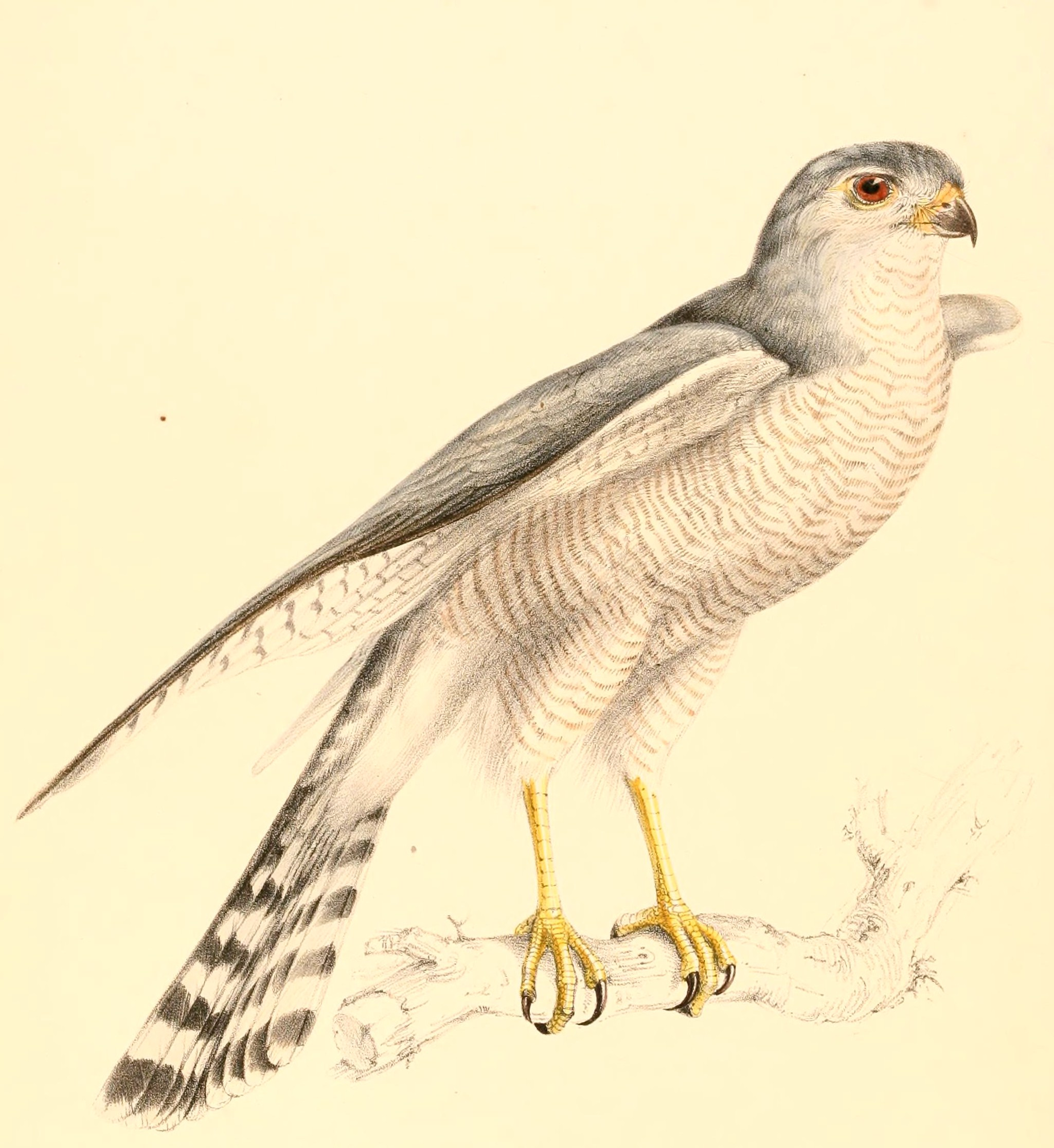 « Accipiter polyzonoides » = Accipiter badius polyzonoides (Subspecies of Shikra) - female